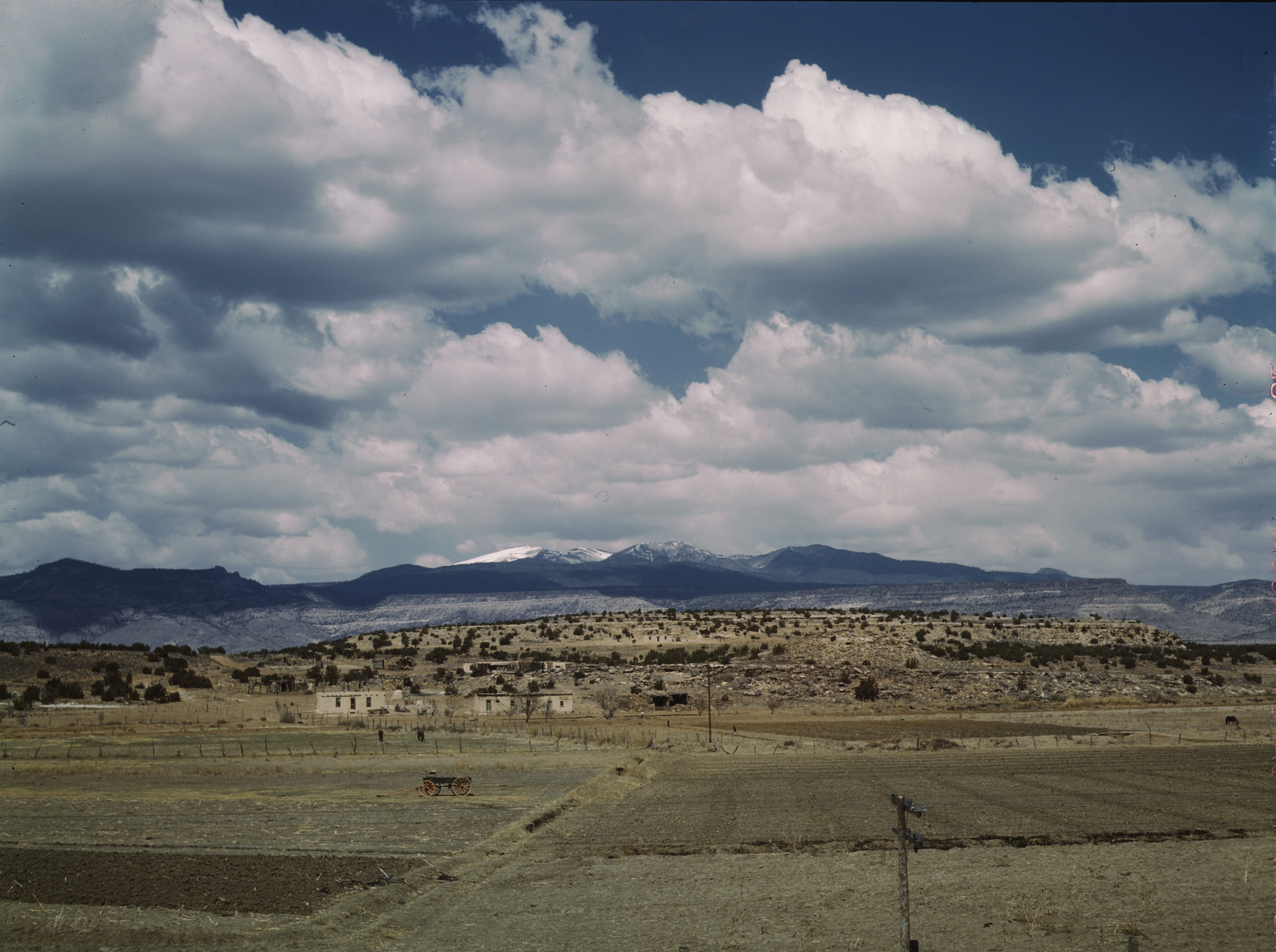 Indian houses and farms on the Laguna Indian reservation, Laguna, New Mexico. Mount Taylor in the background, a volcano in western New Mexico. LOC Delano, Jack, 1914–1997, photographer. CREATED/PUBLISHED 1943 March NOTES Title continues: ... In the background is Mount Taylor. The Santa Fe R.R. crosses the reservation. B&w photograph in Lot 12002-7. Transfer; FSA-OWI; 1944.